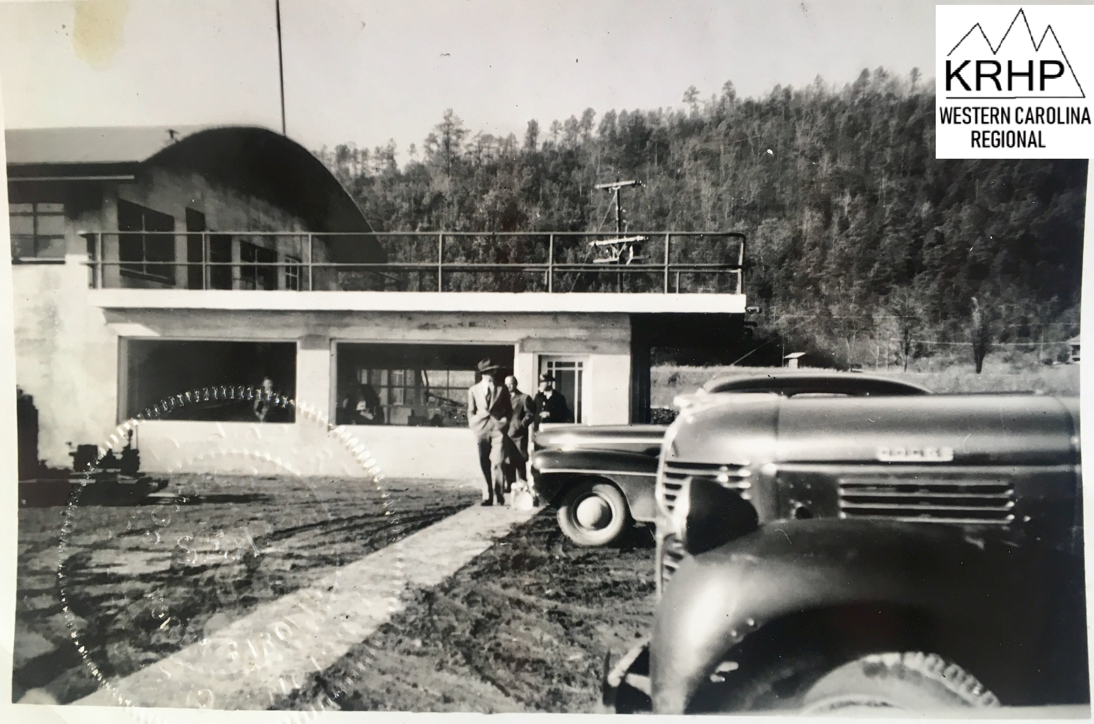 Personal collection photography provided by Airport Legend Mr. Richard Parker